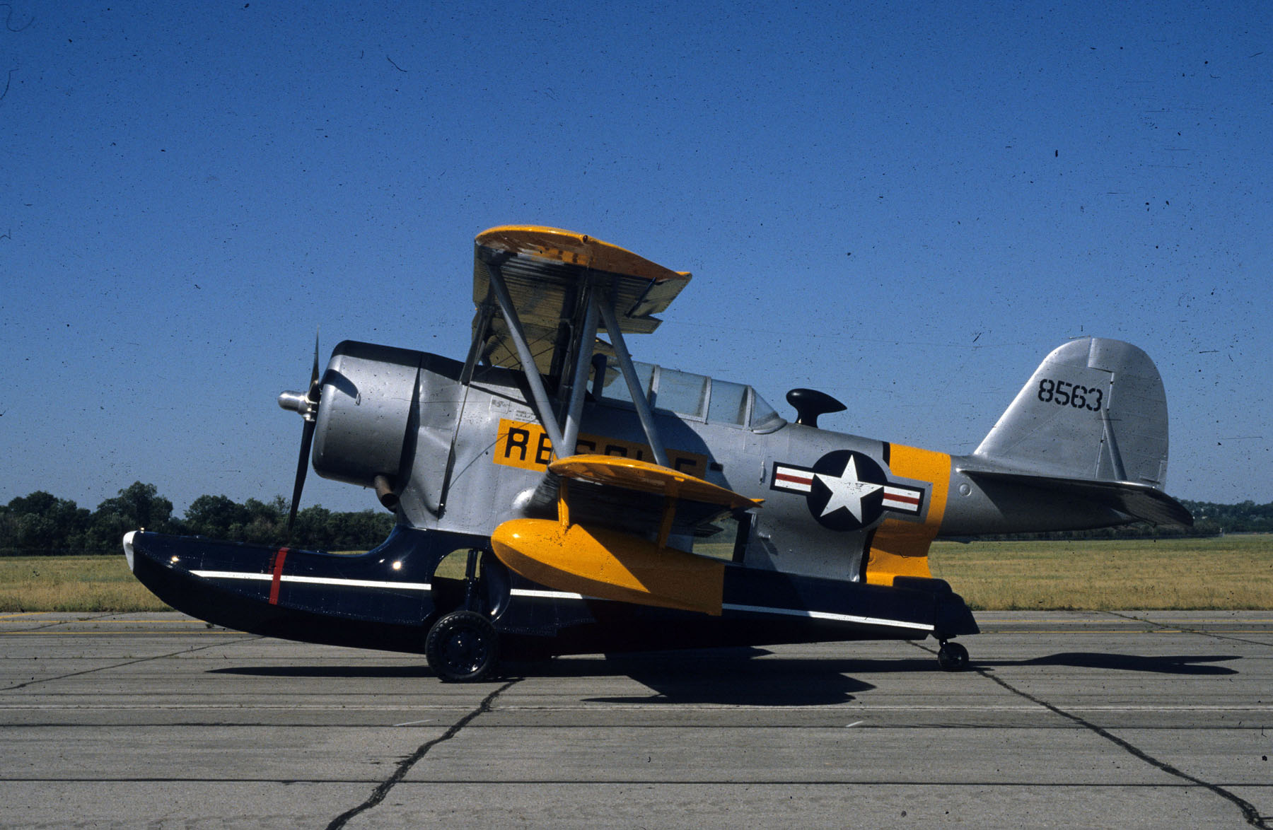 A Grumman OA-12 Duck (s/n 48-563) of the U.S. Air Force Museum at Dayton, Ohio (USA). The OA-12 Duck was the U.S. Air Force version of the Navy J2F-6 amphibian. After the Second World War, the U.S. Air Forces' Air Rescue Service needed special aircraft for overwater missions, and in 1948 the USAF acquired eight surplus Navy J2F-6s. Designated the OA-12, five of these aircraft went to Alaska for duty with the 10th Air Rescue Squadron, and the other three apparently went to an allied country (Colombia?) under the Mutual Defense Assistance Program.